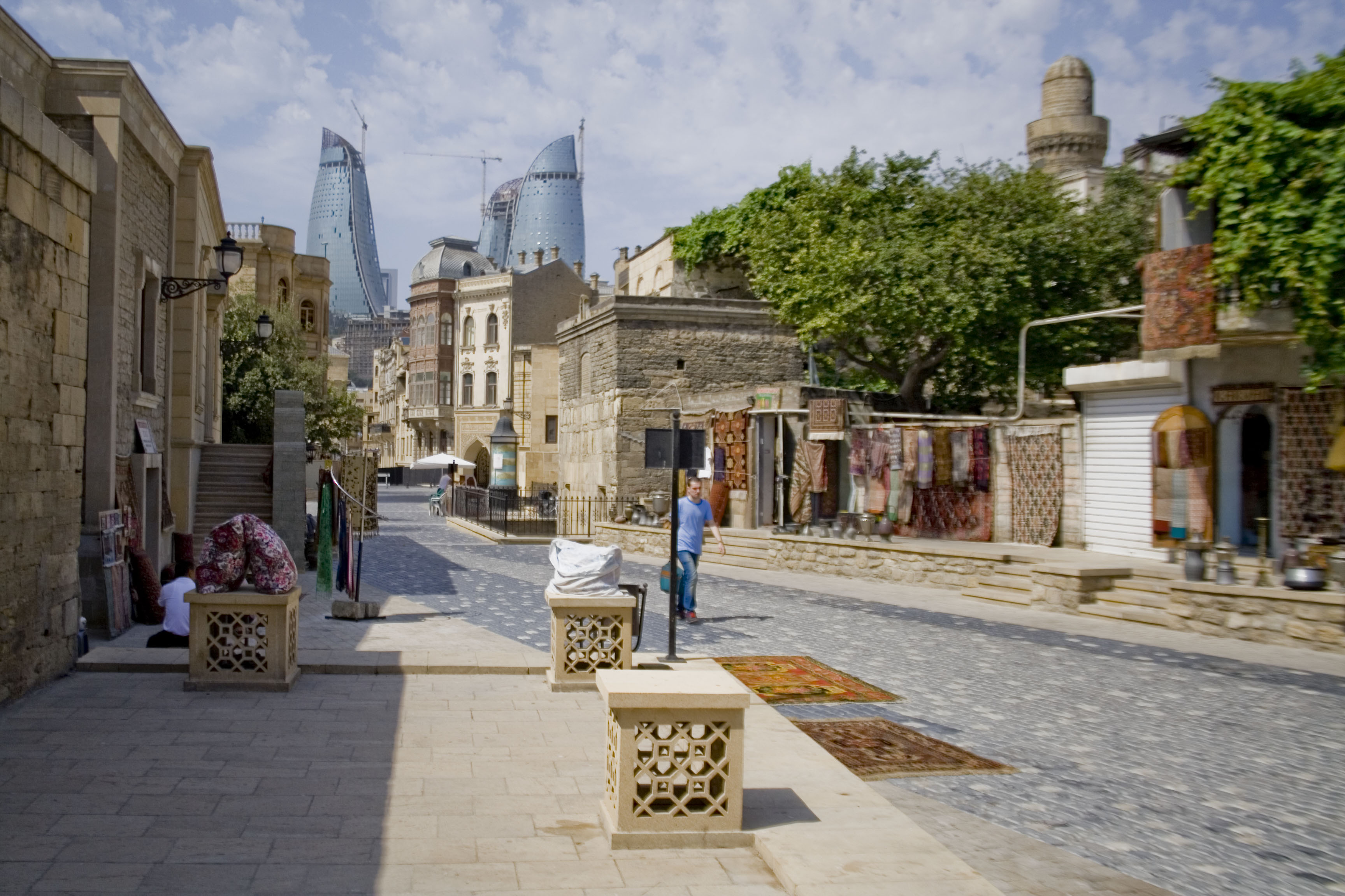 Scene of Asef Zeynali street in Old Baku, Azerbaijan, with new buildings clearly visible in the background